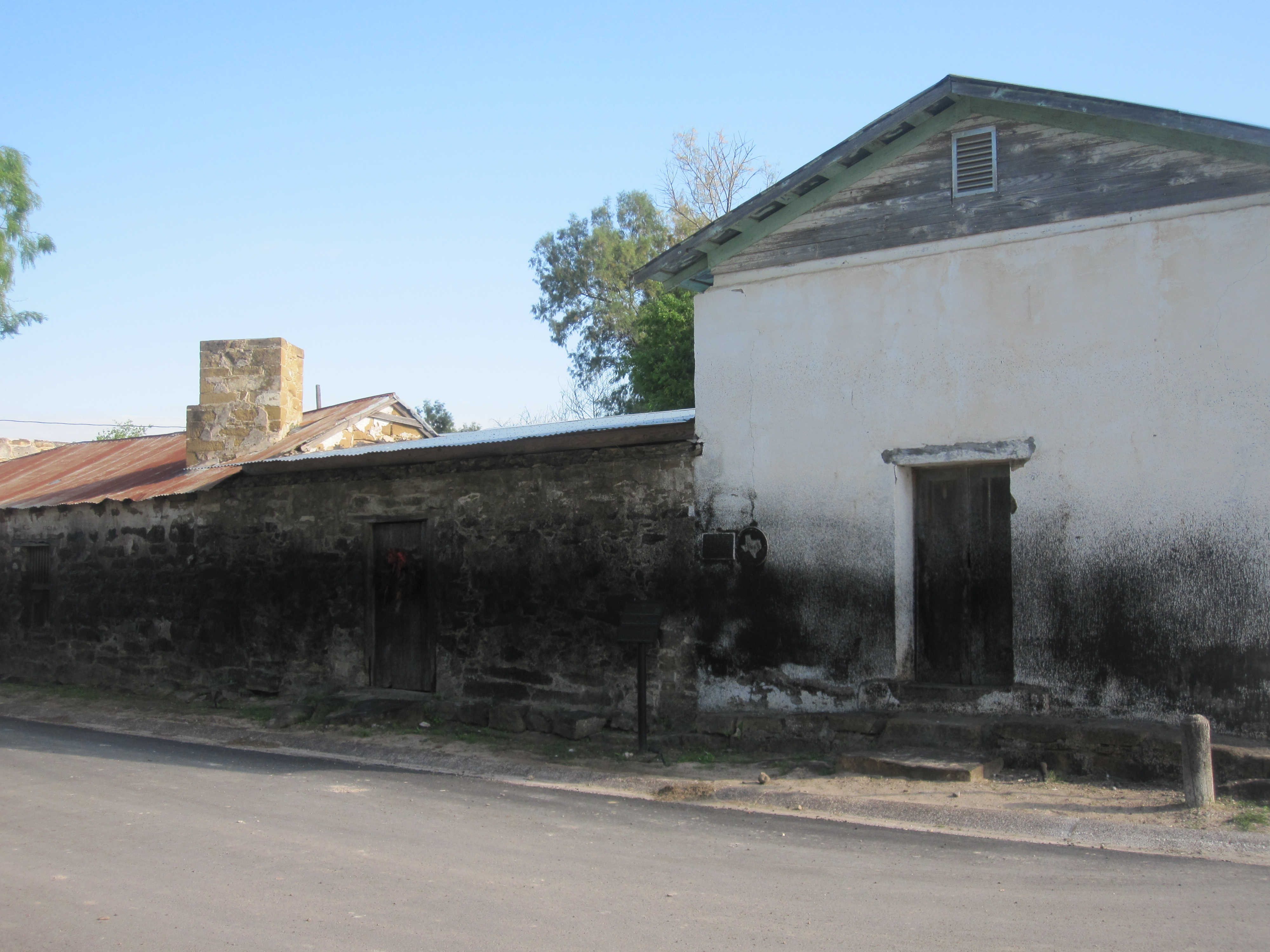 Trevino-Uribe Rancho. I took picture with Canon camera.